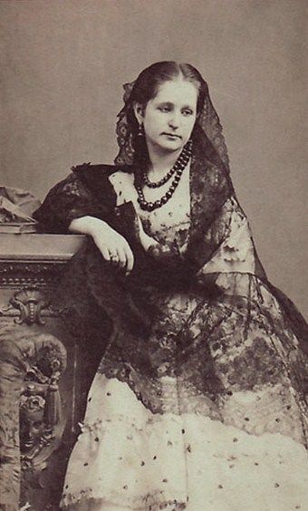 Princess Gortchakov